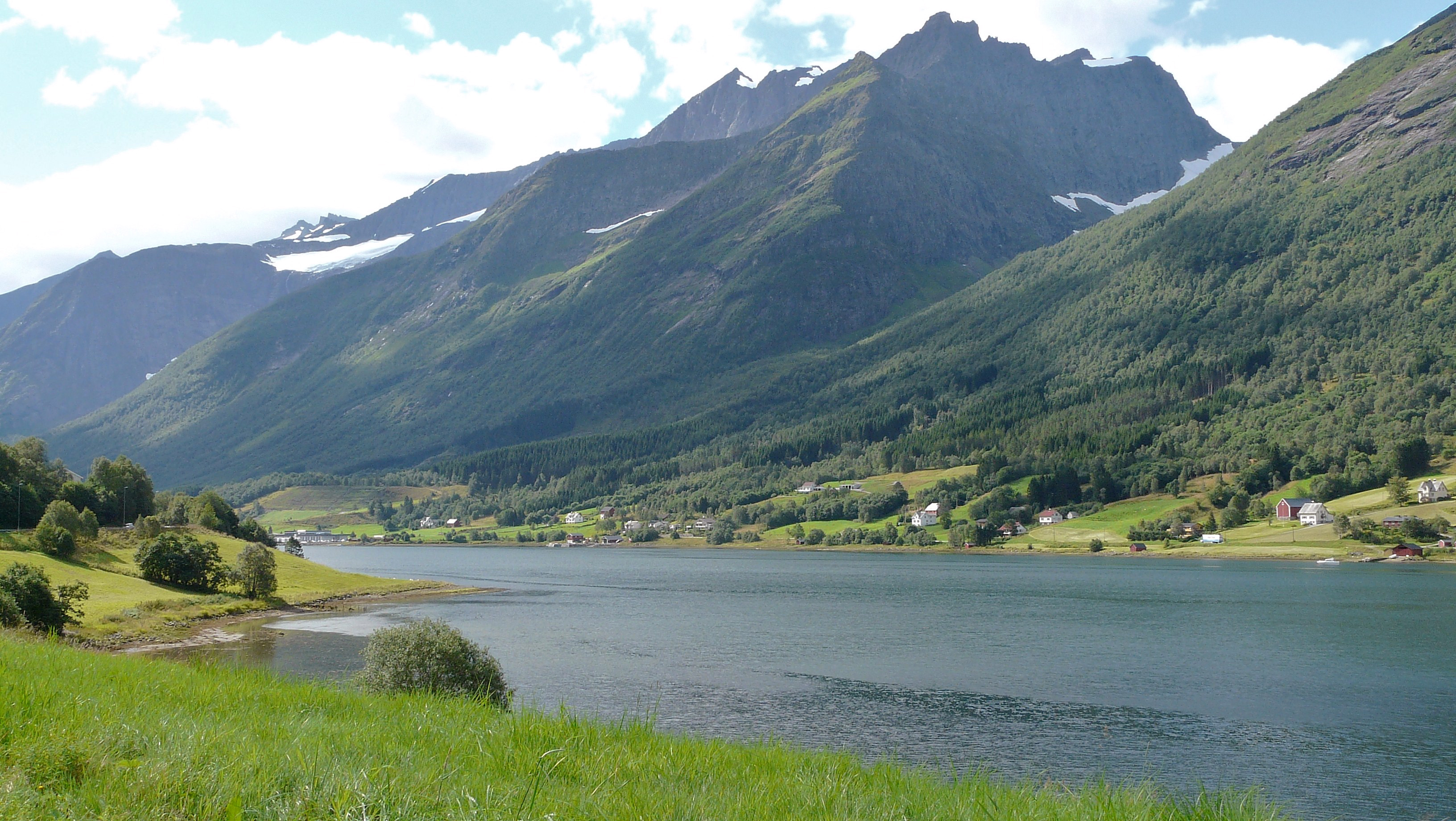 A view on the east coast of Sykkylvsfjorden in 2008 August. Trollkyrkjetindane in the background.